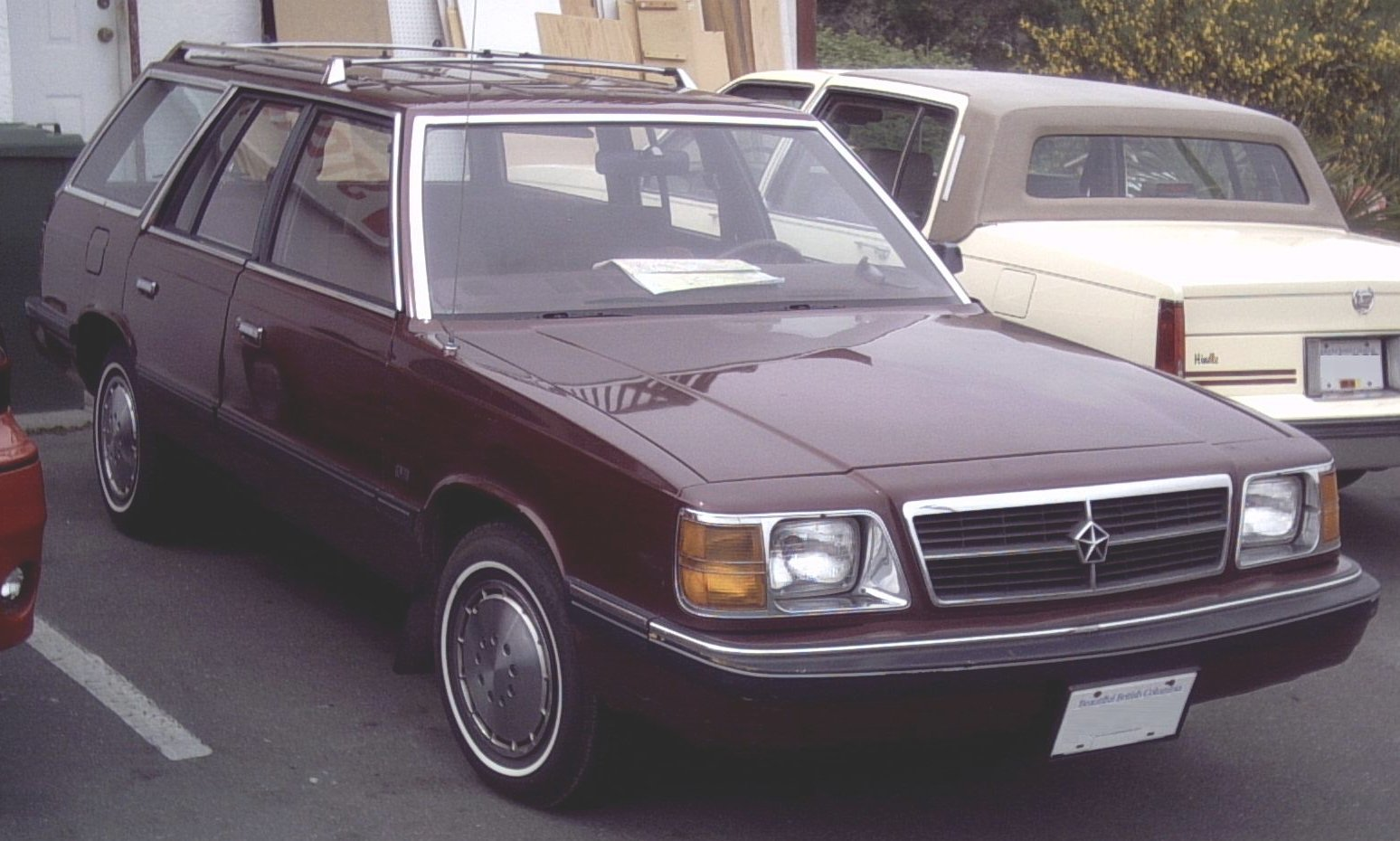 Dodge Aries Station Wagon